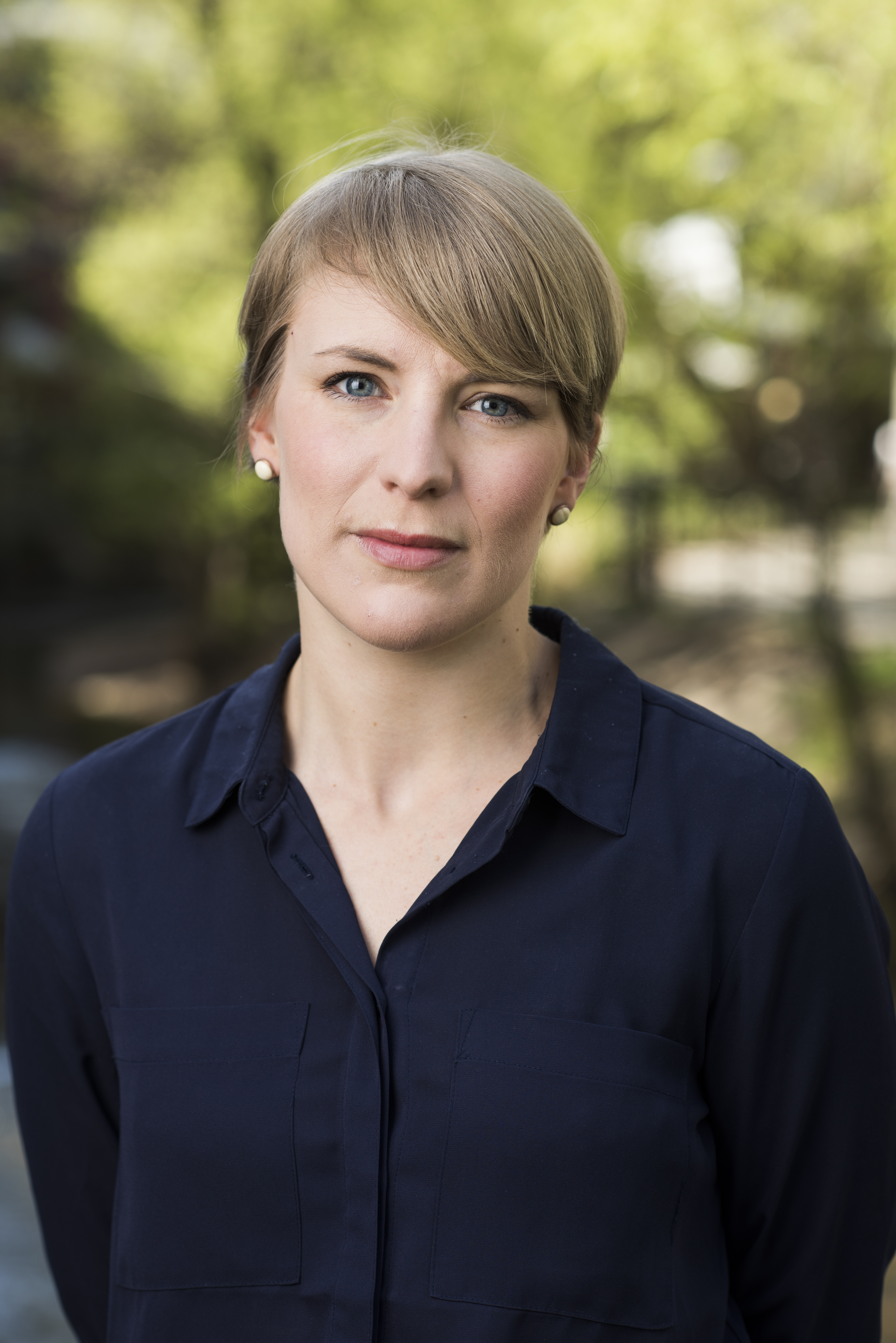 Kari Elisabeth Kaski, Foto: Marius Nyheim Kristoffersen